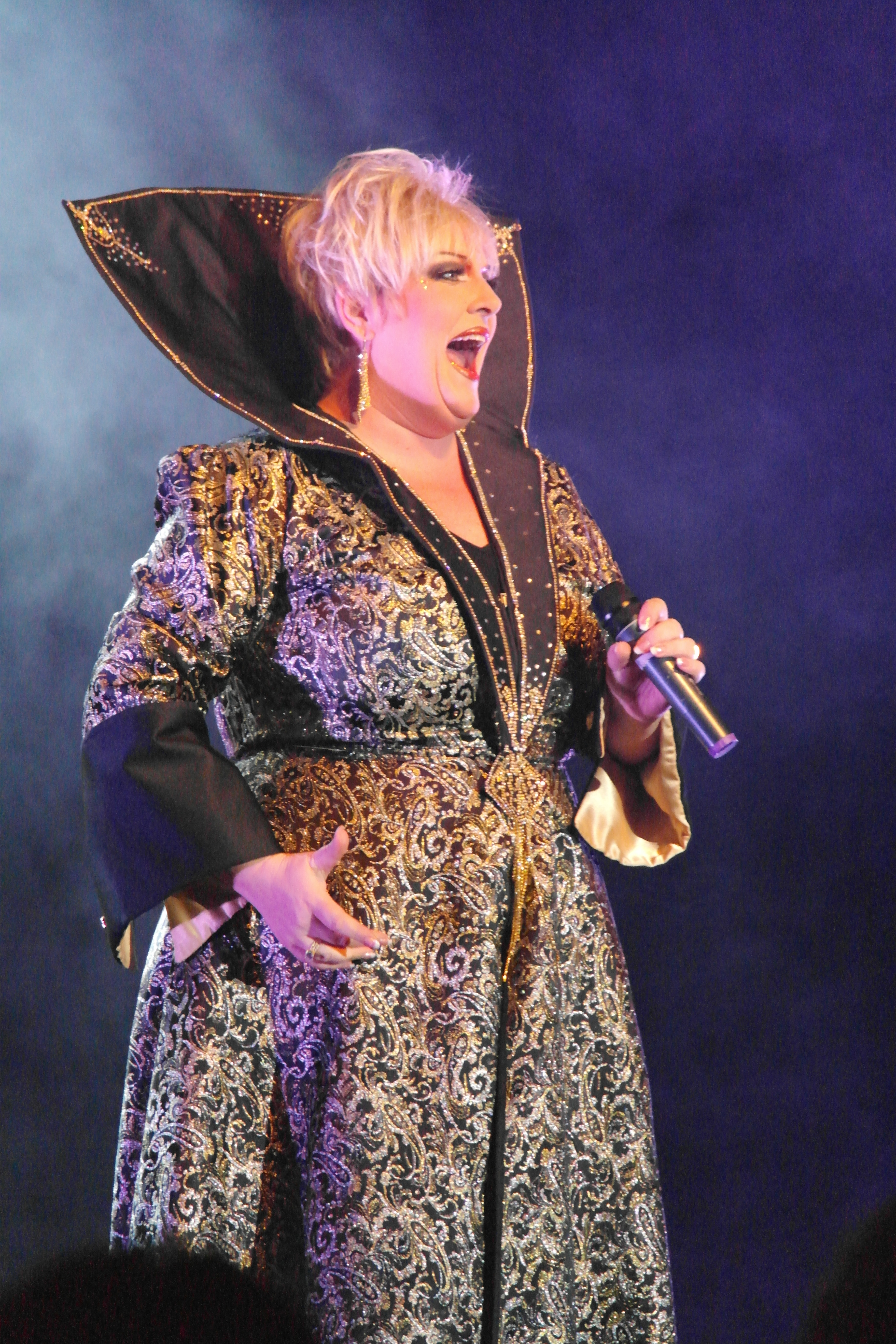 Wanda Kay bei der GALANACHT DER TRAVESTIE Tour 2012 - 2013